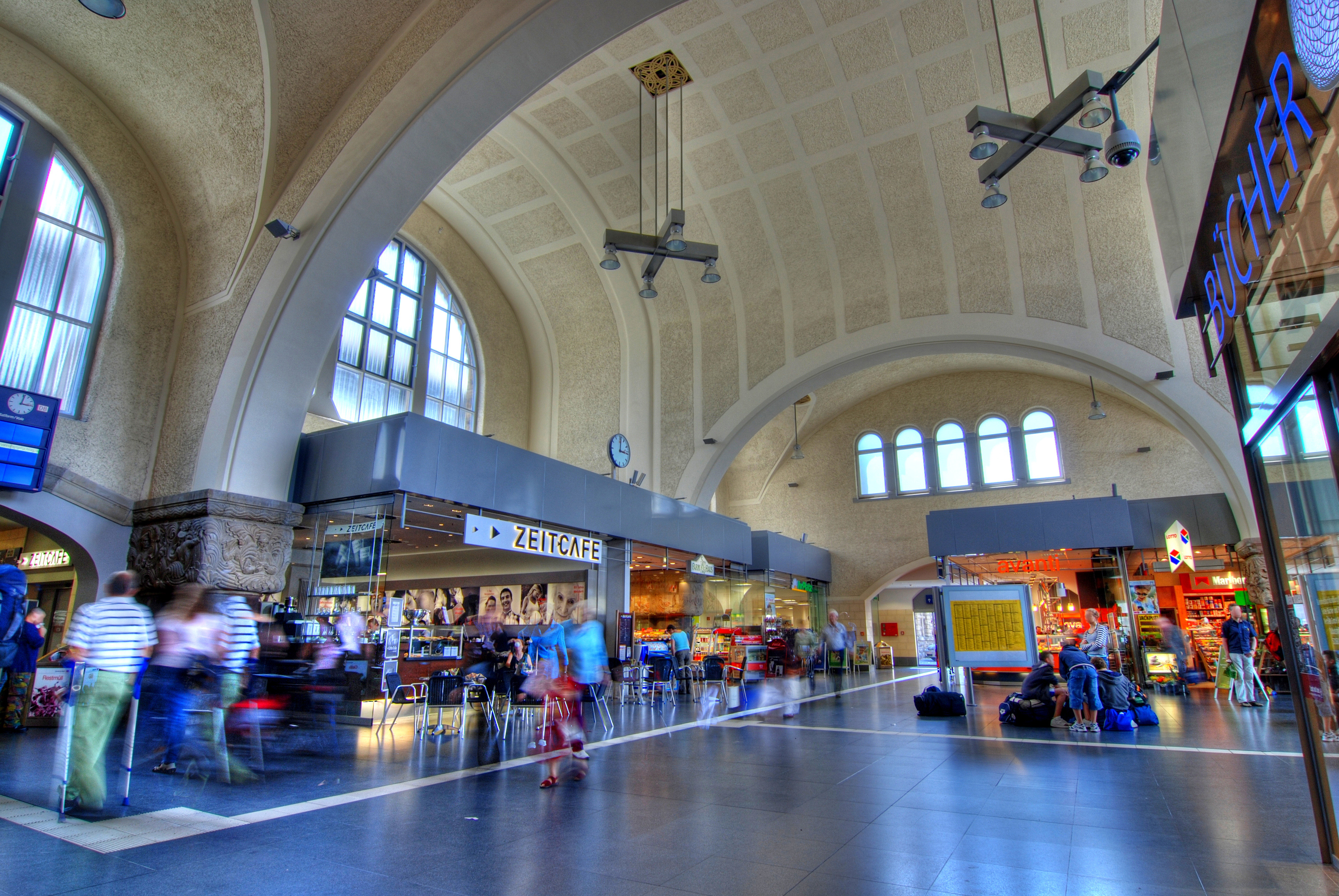 Aachen main station inside view after the reconstruction